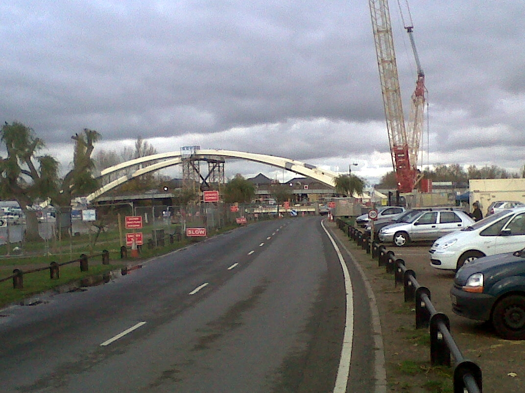 Walton Bridge taken 17/11/2012 during construction